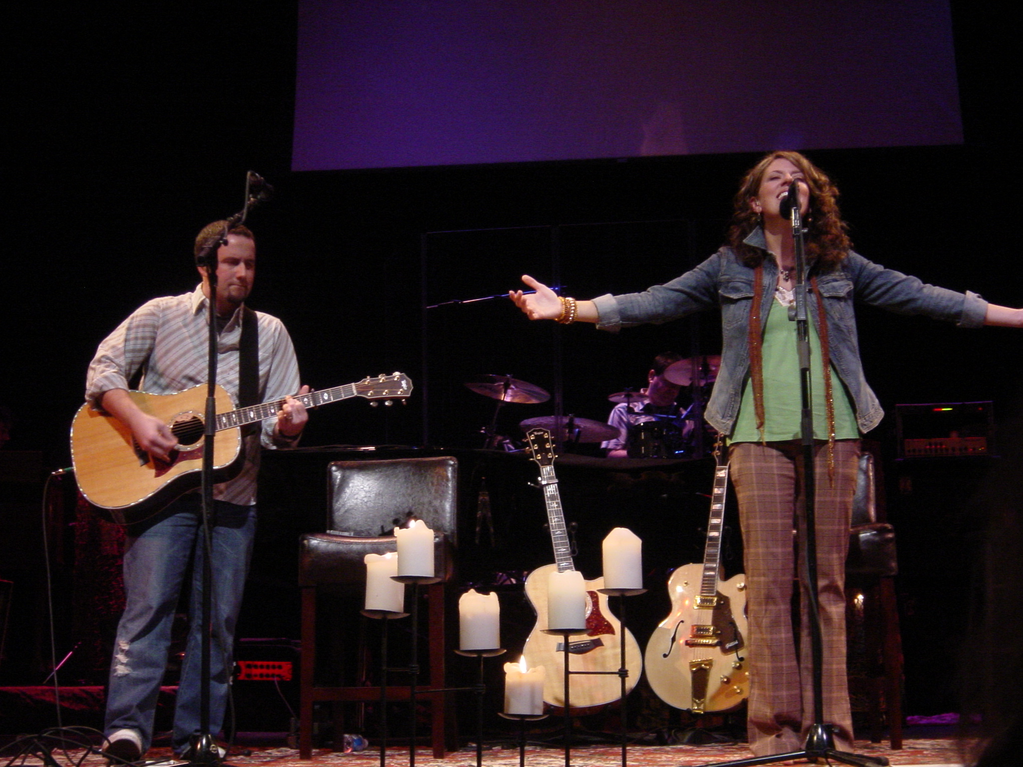 Watermark, taken by Robyn Watson, August 25. 2005